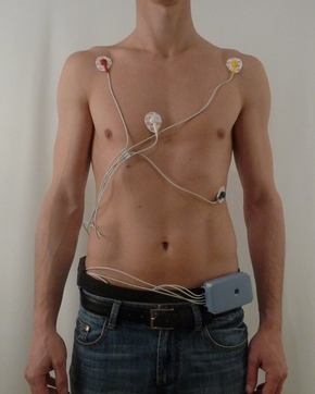 BTL holter lead system